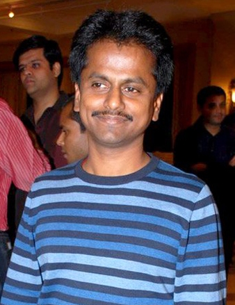 Murugadoss at the Celebration of Ghajini Film's 200 Crores Collections Worldwide